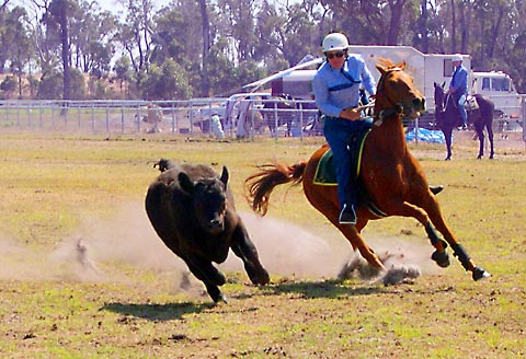 Campdraft event in Mount Barker, Western Australia. Photo by Andy Dolphin.